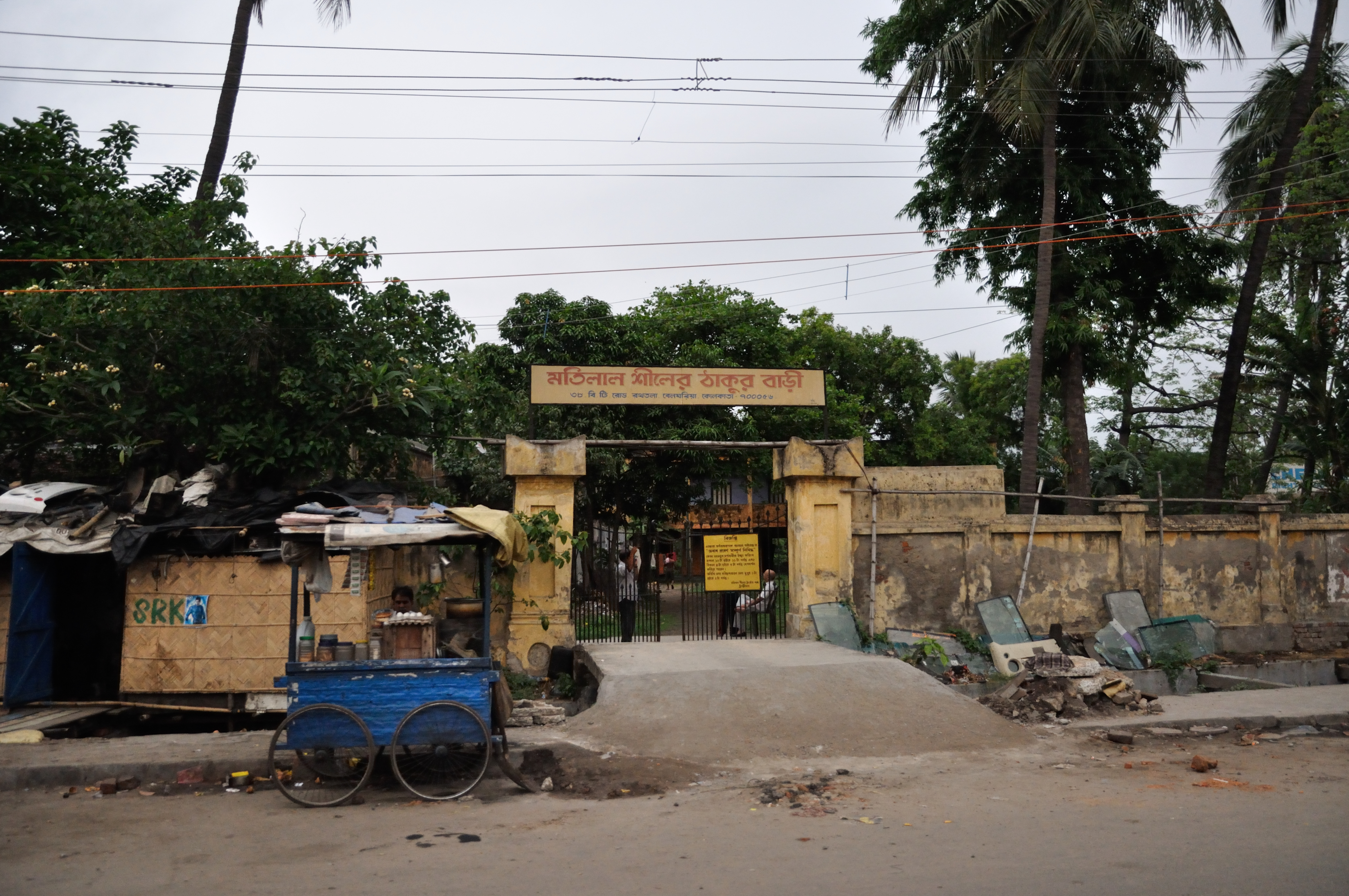 photographed in greater Kolkata.